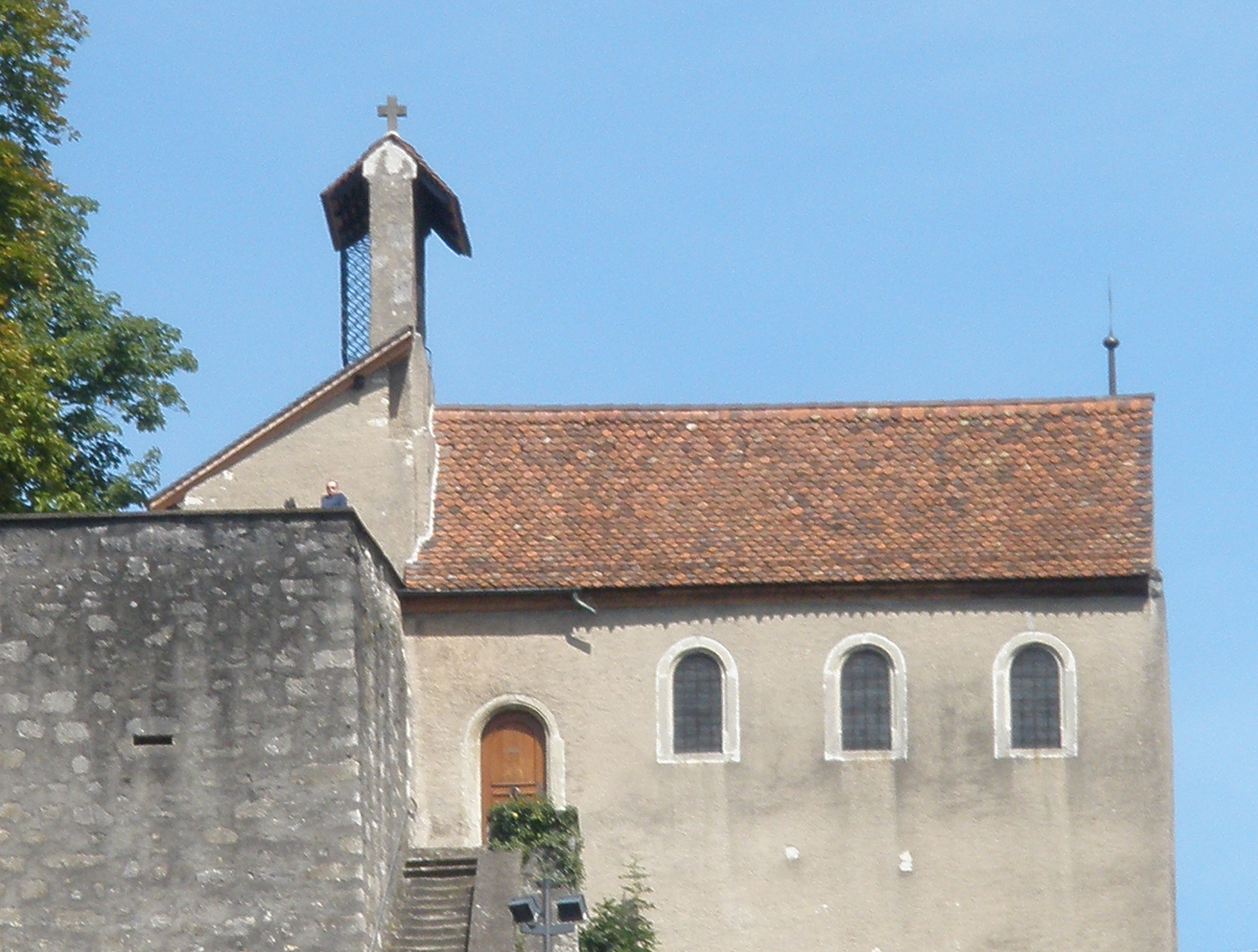 St. Nikolaus Chapel, Stein Castle, Baden, Switzerland